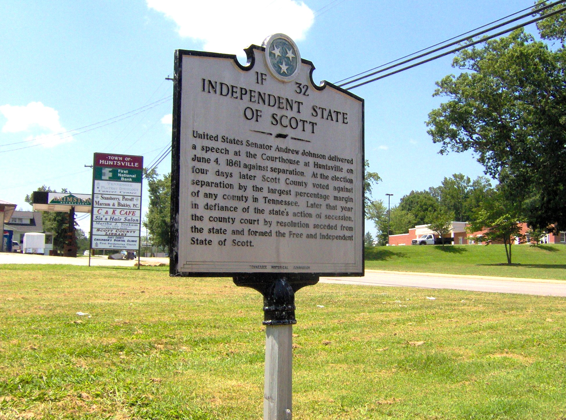 Tennessee Historical Commission marker along TN-63 in Huntsville, Tennessee, in the southeastern United States. The marker recalls the Civil War-era attempt by pro-Union Scott County to withdraw from pro-Confederate Tennessee and form an independent state.